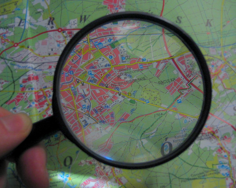 A magnifying glass.